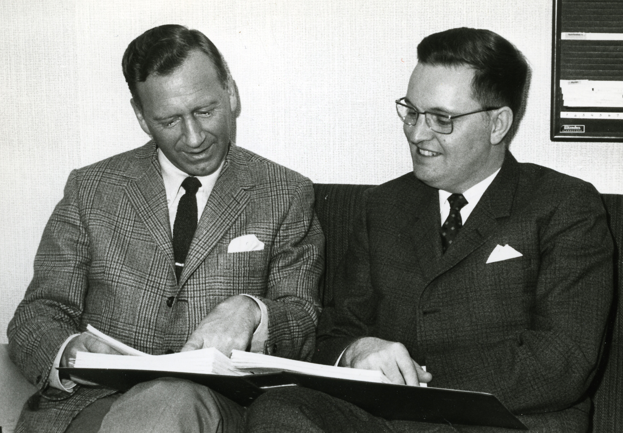 Trygve Haneas and Erik Bjore